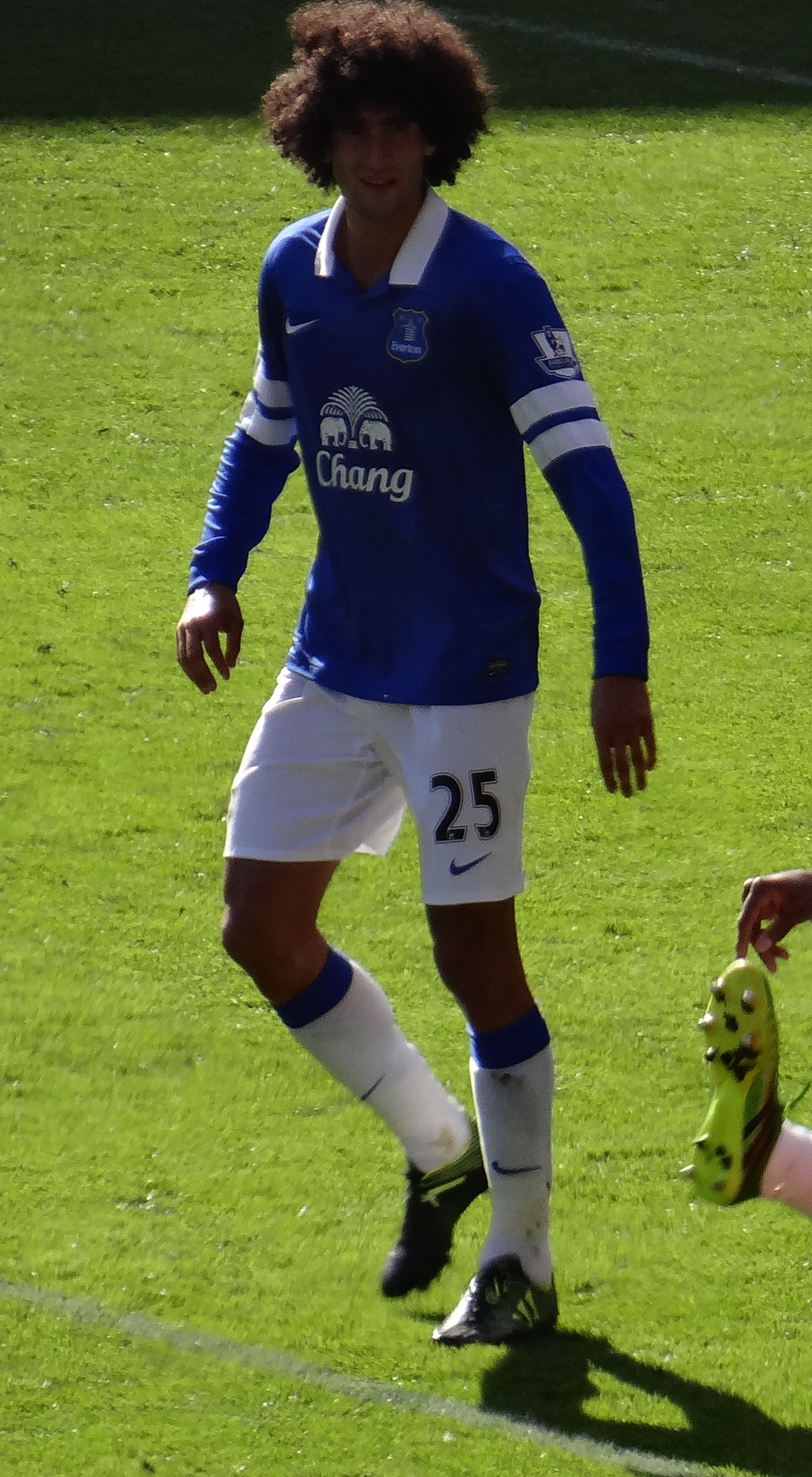 Marouane Fellaini playing for Everton in August 2013.